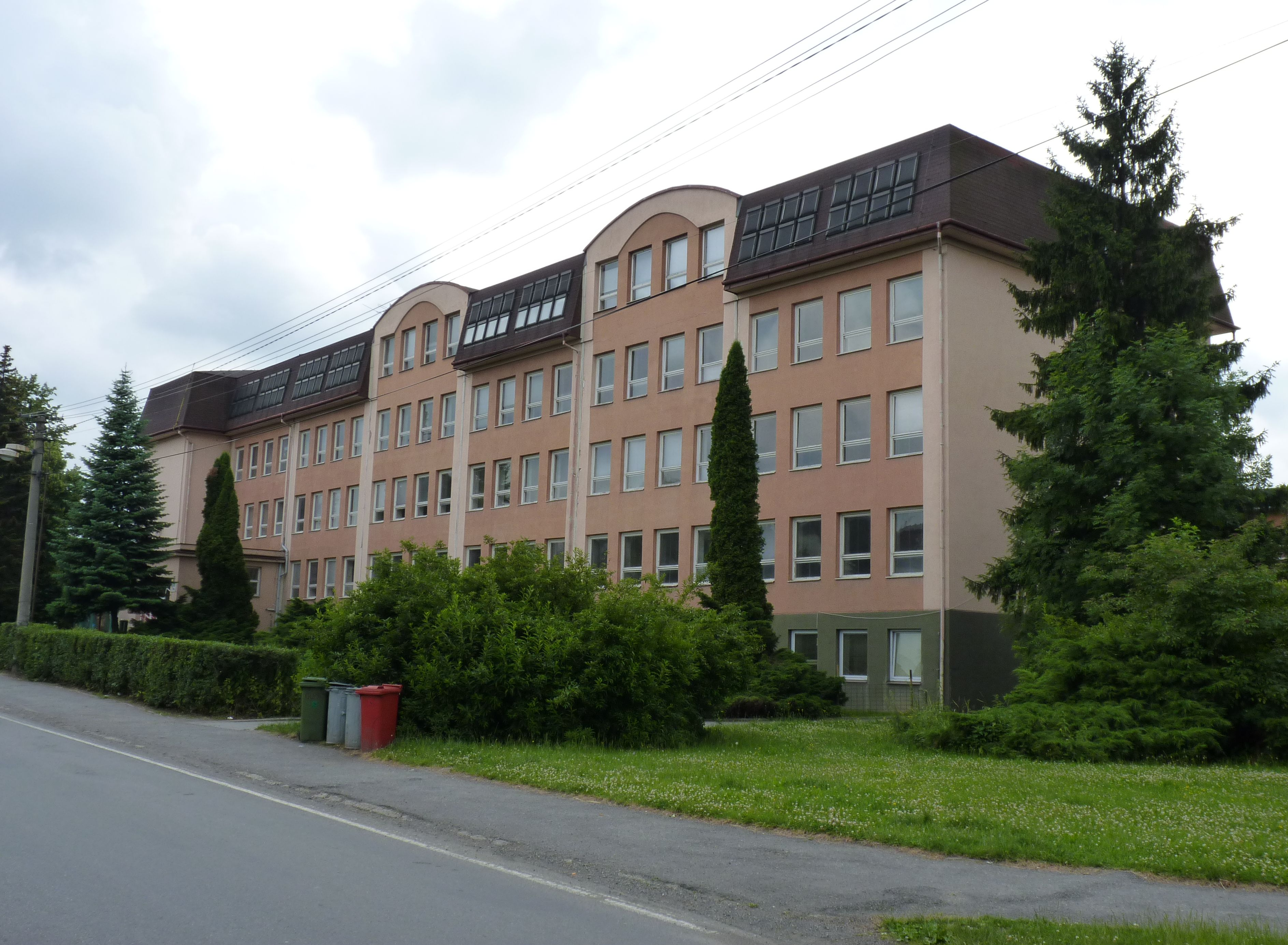 Horní Suchá (Sucha Górna). Karviná District, Moravian-Silesian Region, Czech Republic